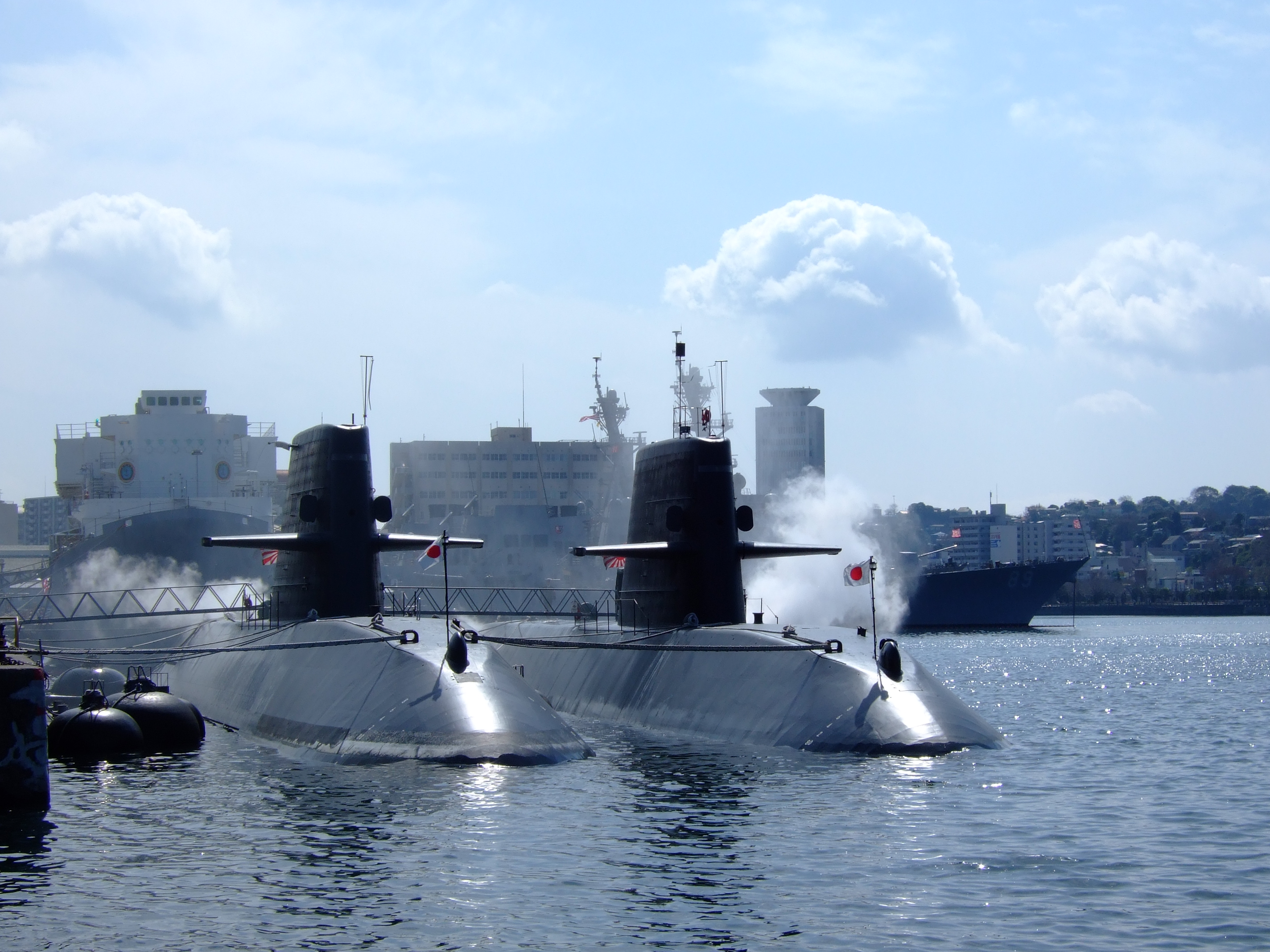 Oyashio-class submarines moored at Kusugaura-chō, Yokosuka. Fujifilm FinePix F30